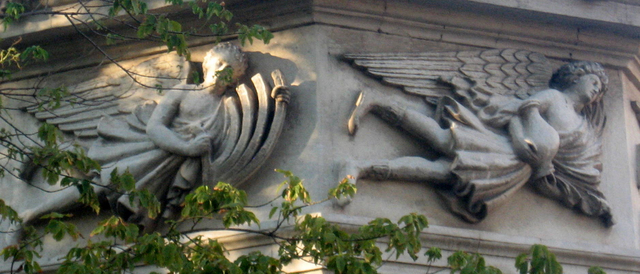 "Wind tower" in Sevastopol